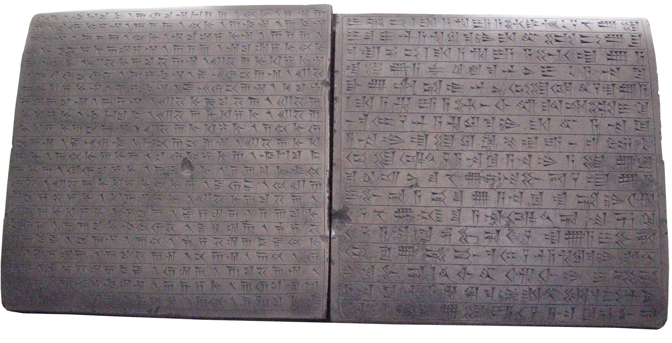 Bilingual (left Old Persian, right Akkadian) Inscription of replacement for king Xerxes I found at the Persepolis Herem.